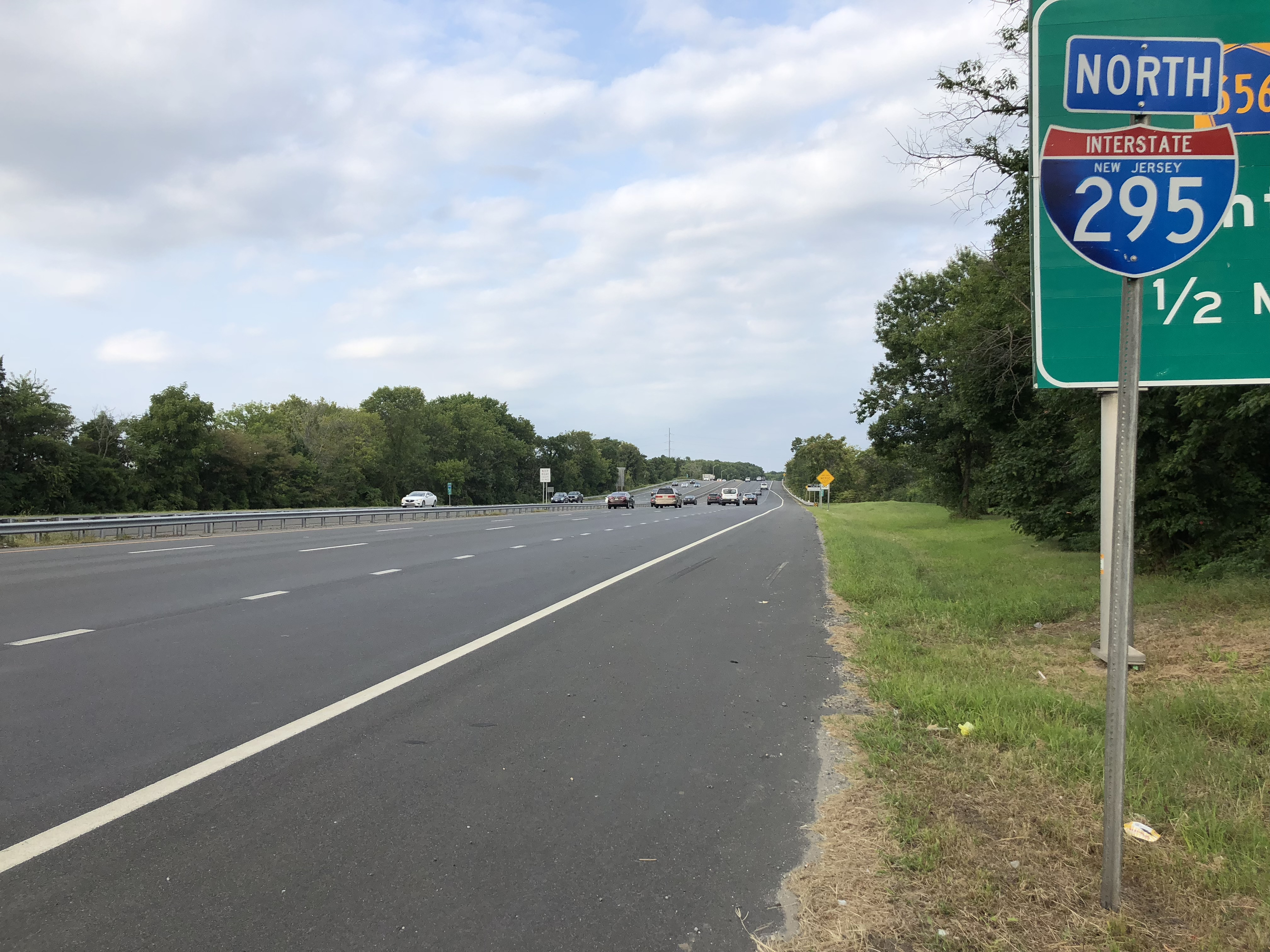 View north along Interstate 295 and U.S. Route 130 north of Exit 18 in Paulsboro, Gloucester County, New Jersey